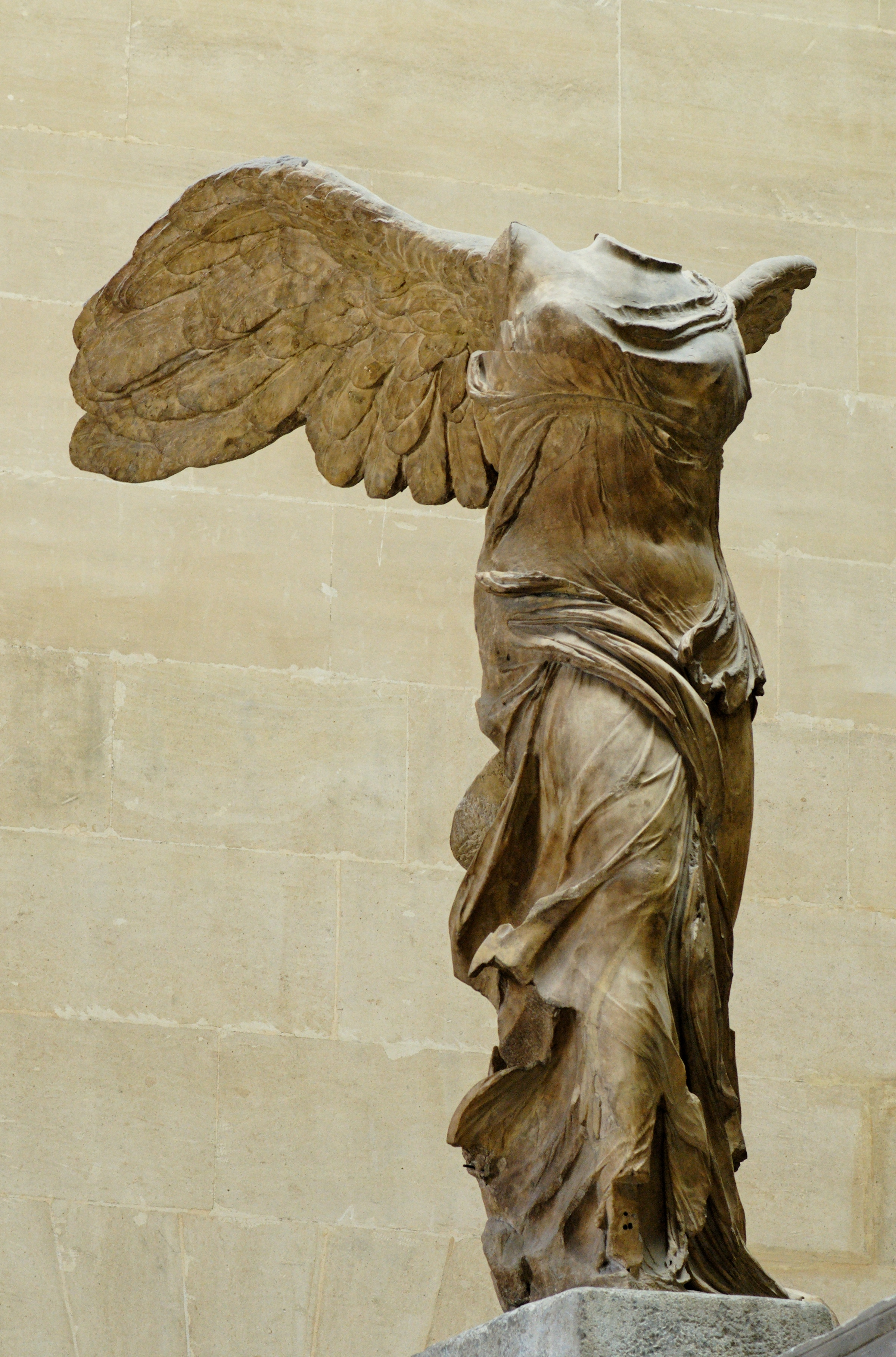 Winged Nike of Samothrace. Parian marble, ca. 190 BC? Found in Samothrace in 1863.